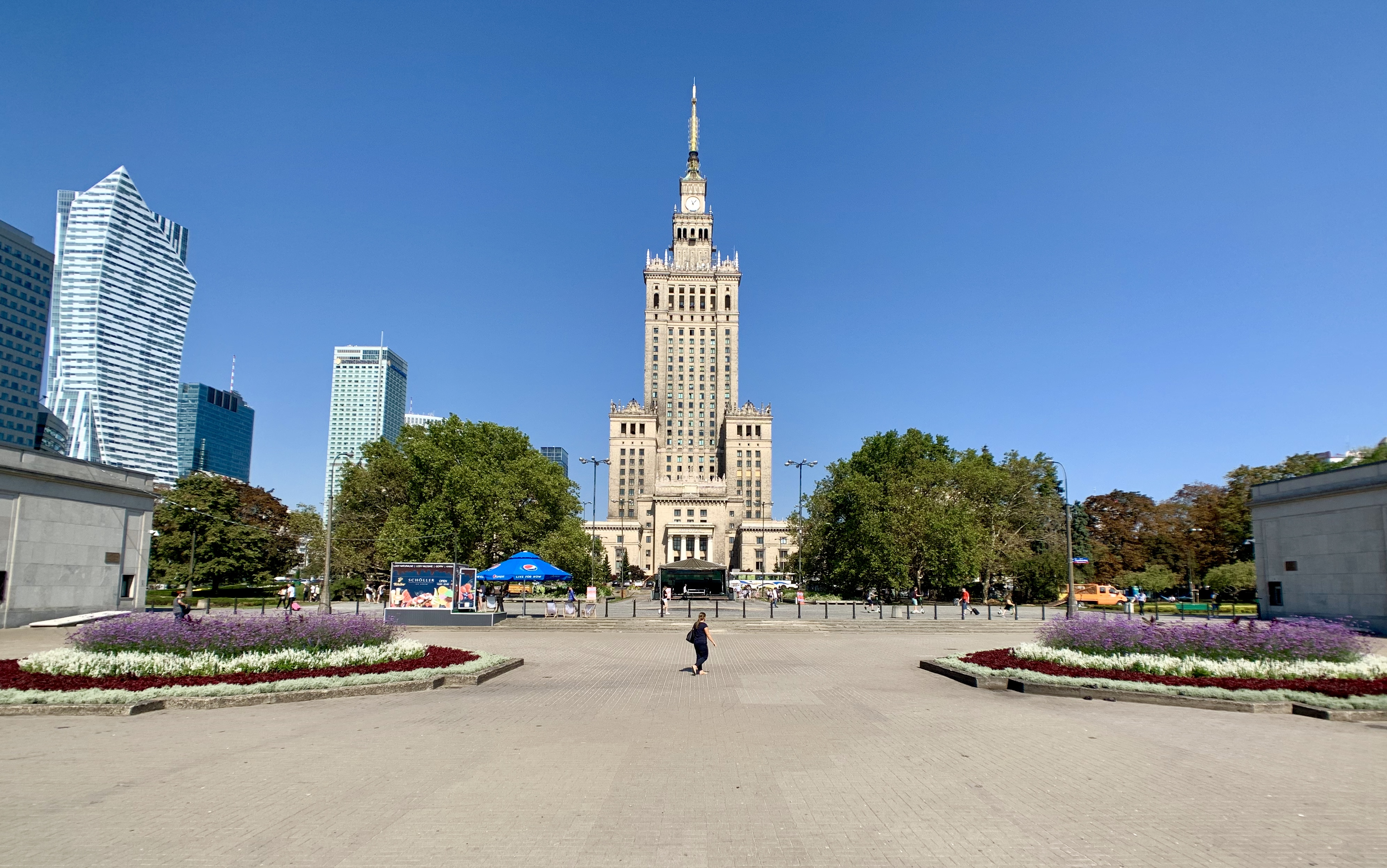 Palace of Culture and Science, Warsaw, Poland August 2019